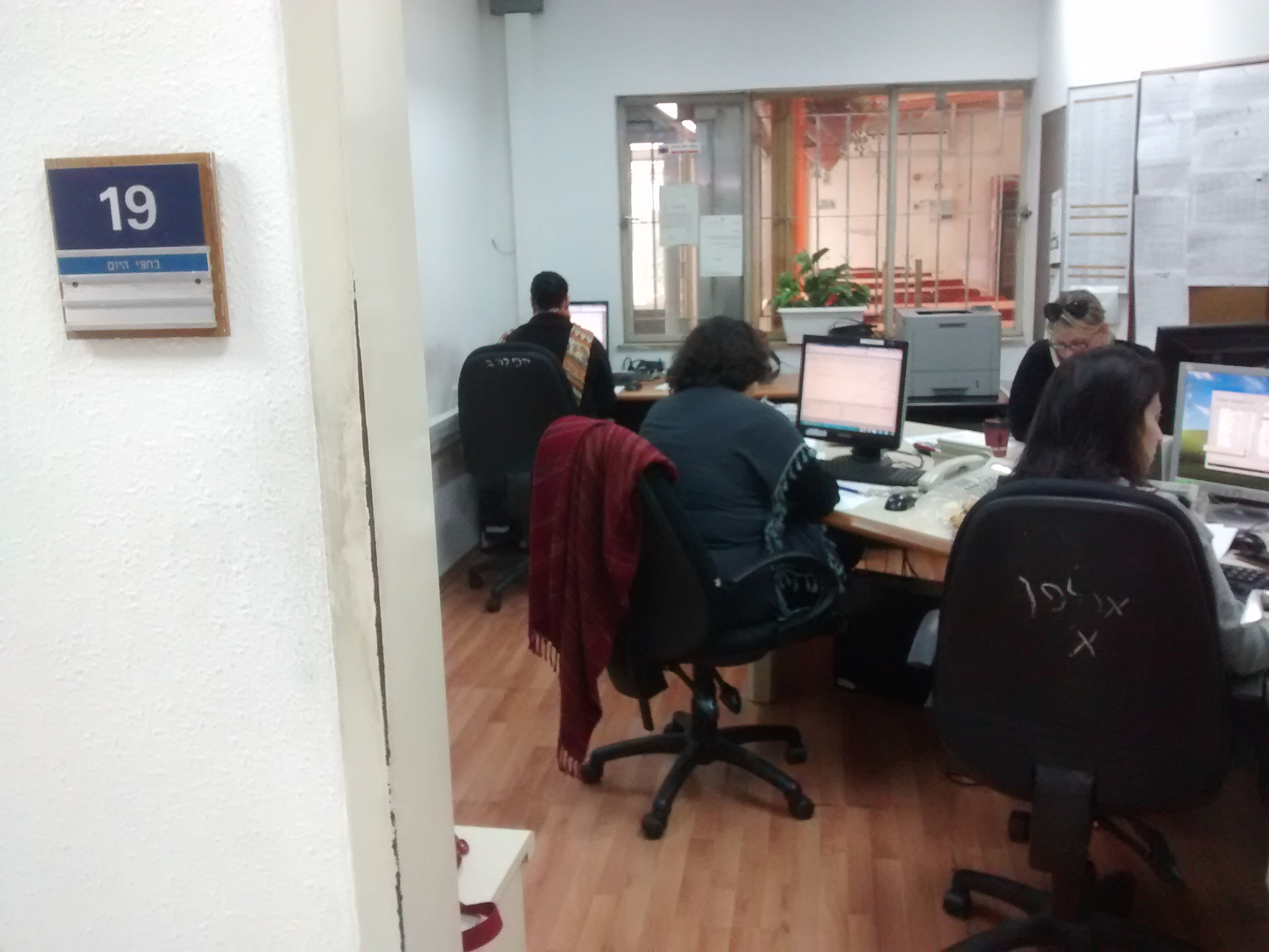 Studios and facilities of Kol Israel in Romema, Jerusalem 2016